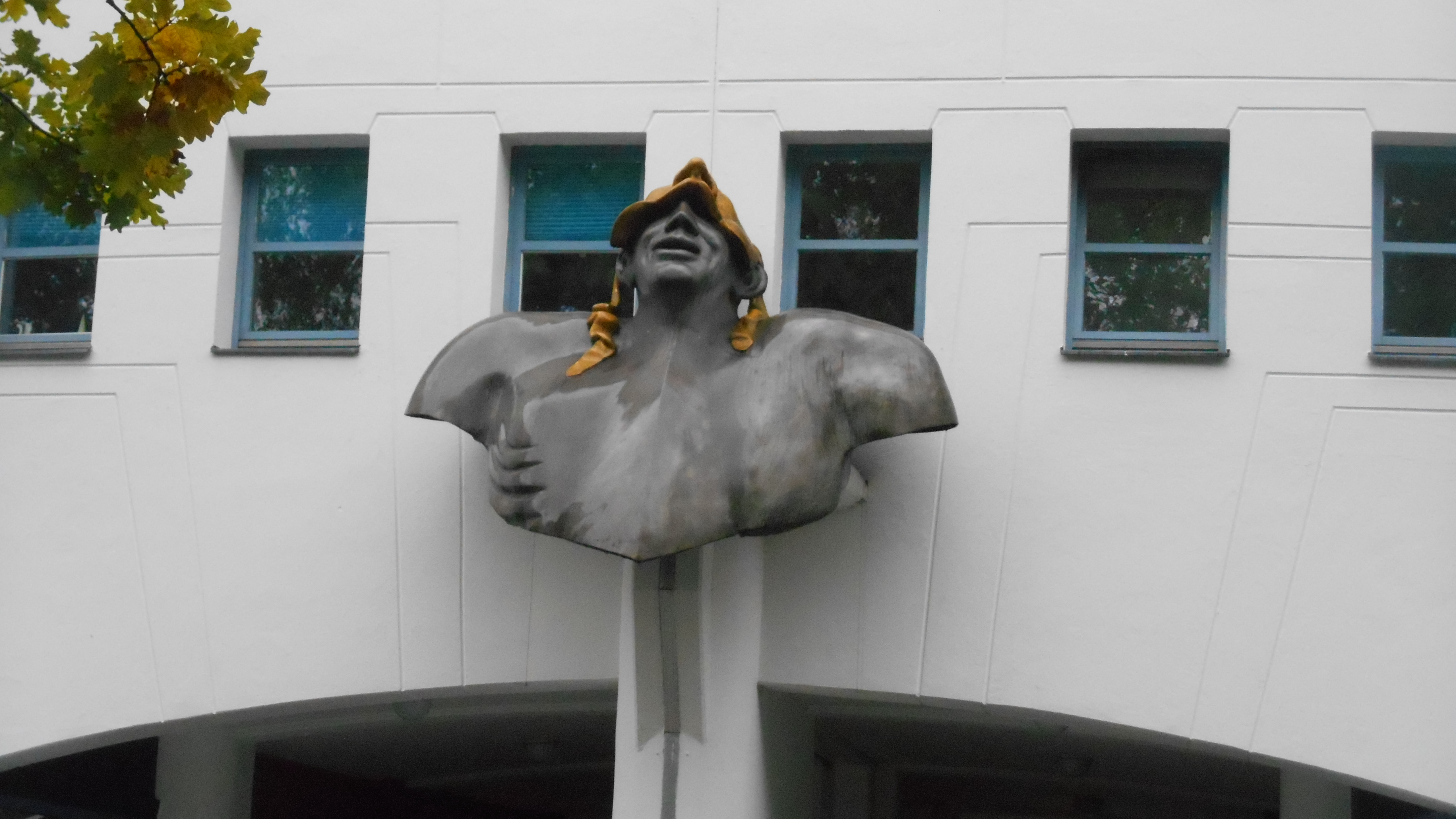 Historic address of Reinhold Begas` studio close in Stülerstraße to Großer Tiergarten in Berlin-Mitte; sculpture by Rob Krier (*1938), Berlin (Germany)